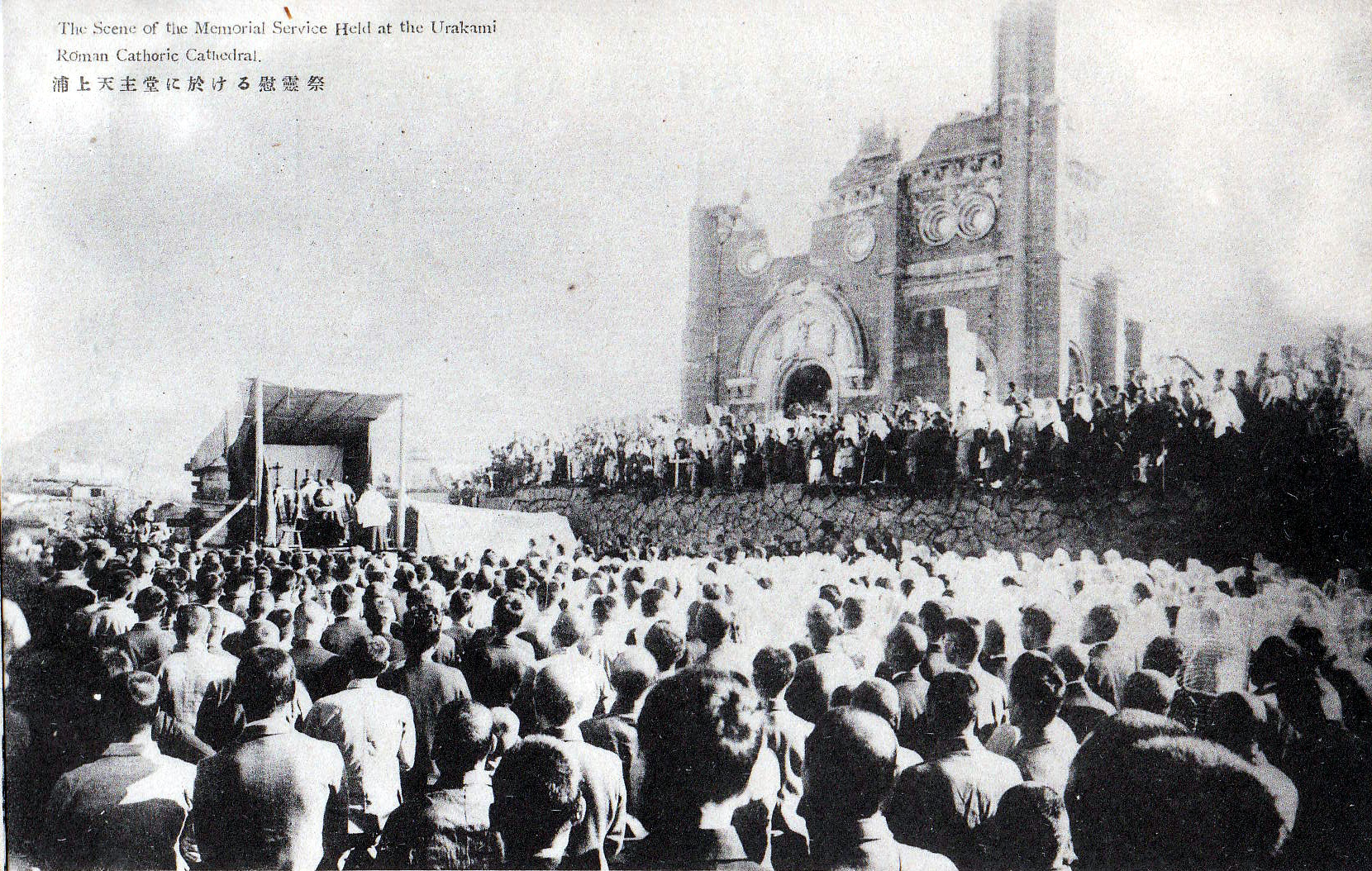 Postcard of the Memorial Service Held at the Urakami Roman Catholic Cathedral, November 23, 1945. (The Pictorial Post-Cards Regarding the War Calamities, Suffered on August 9, 1945. Published by the Nagasaki City Office.)